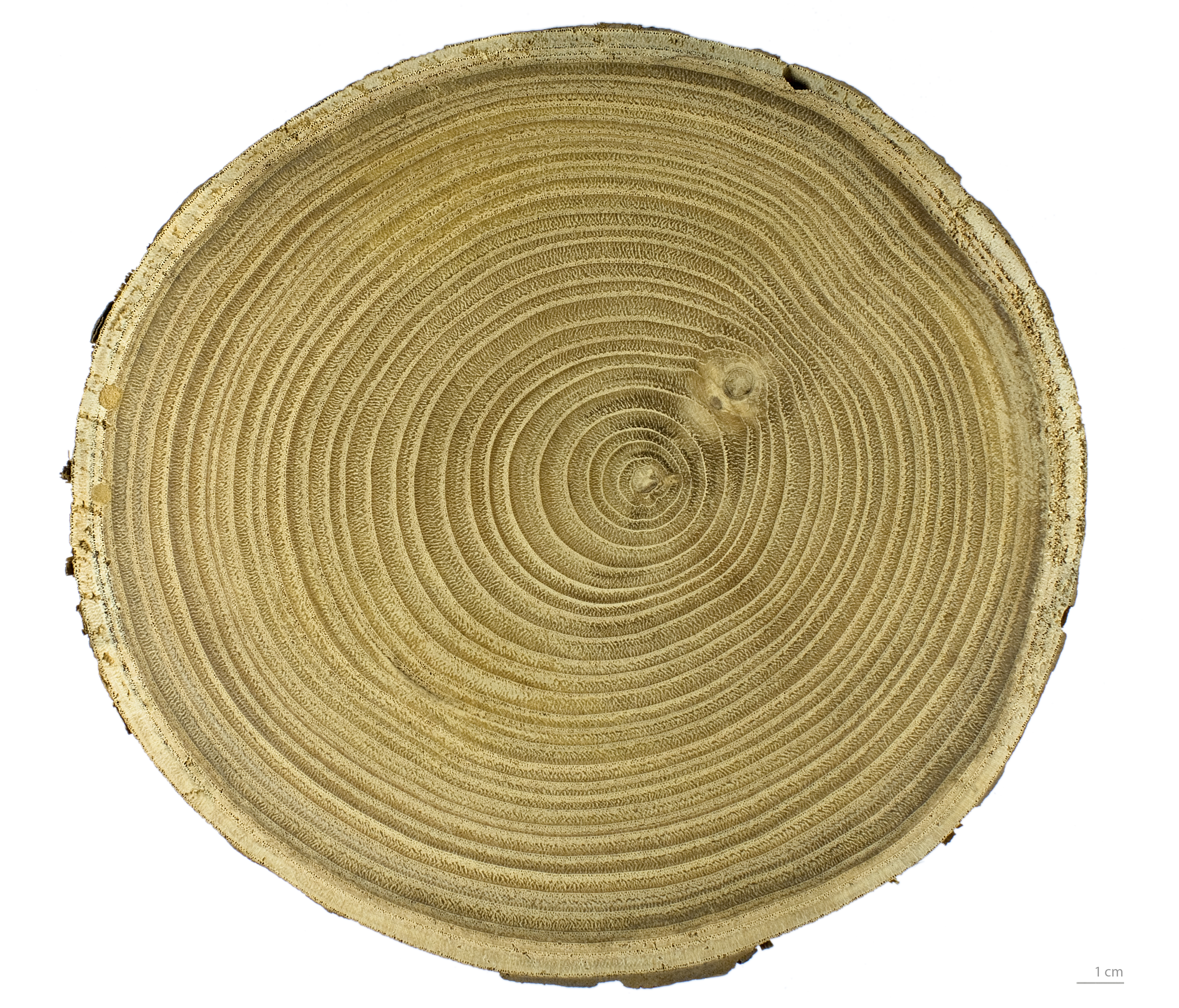 Sweet chestnut , wood